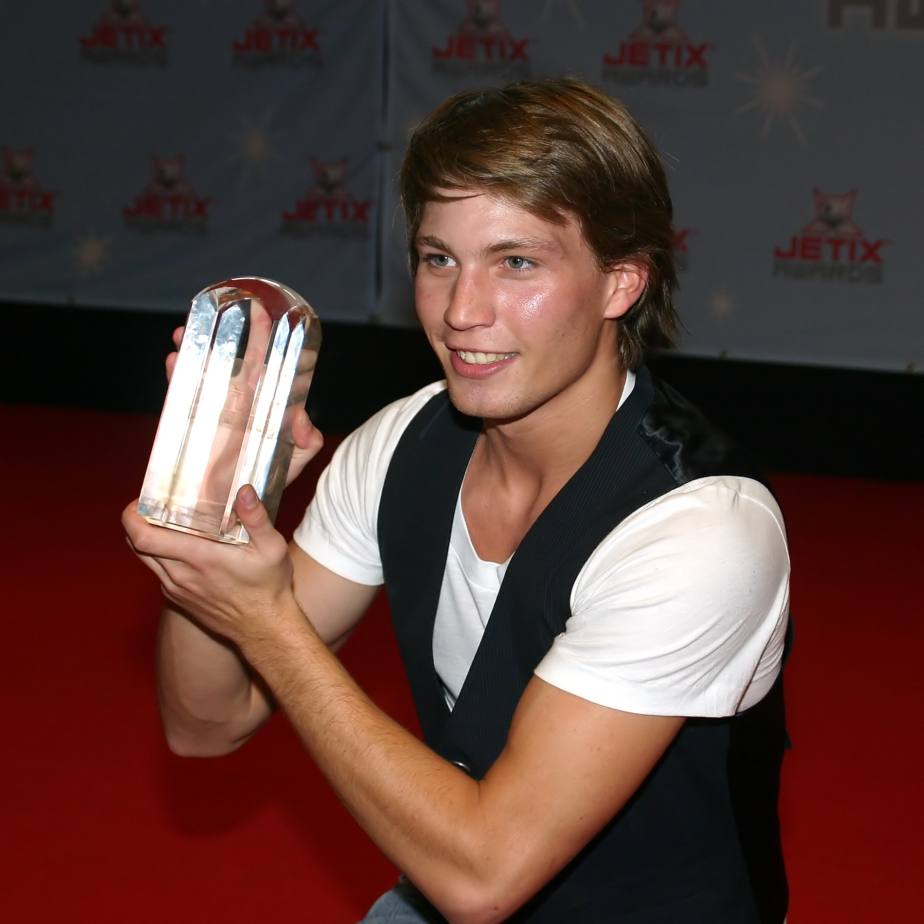 Raúl Richter during the conferment of the JETIX Award at the youth fair "YOU", Berlin